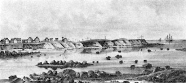 Pyalitsa Village by Reder, Engraving, 1837